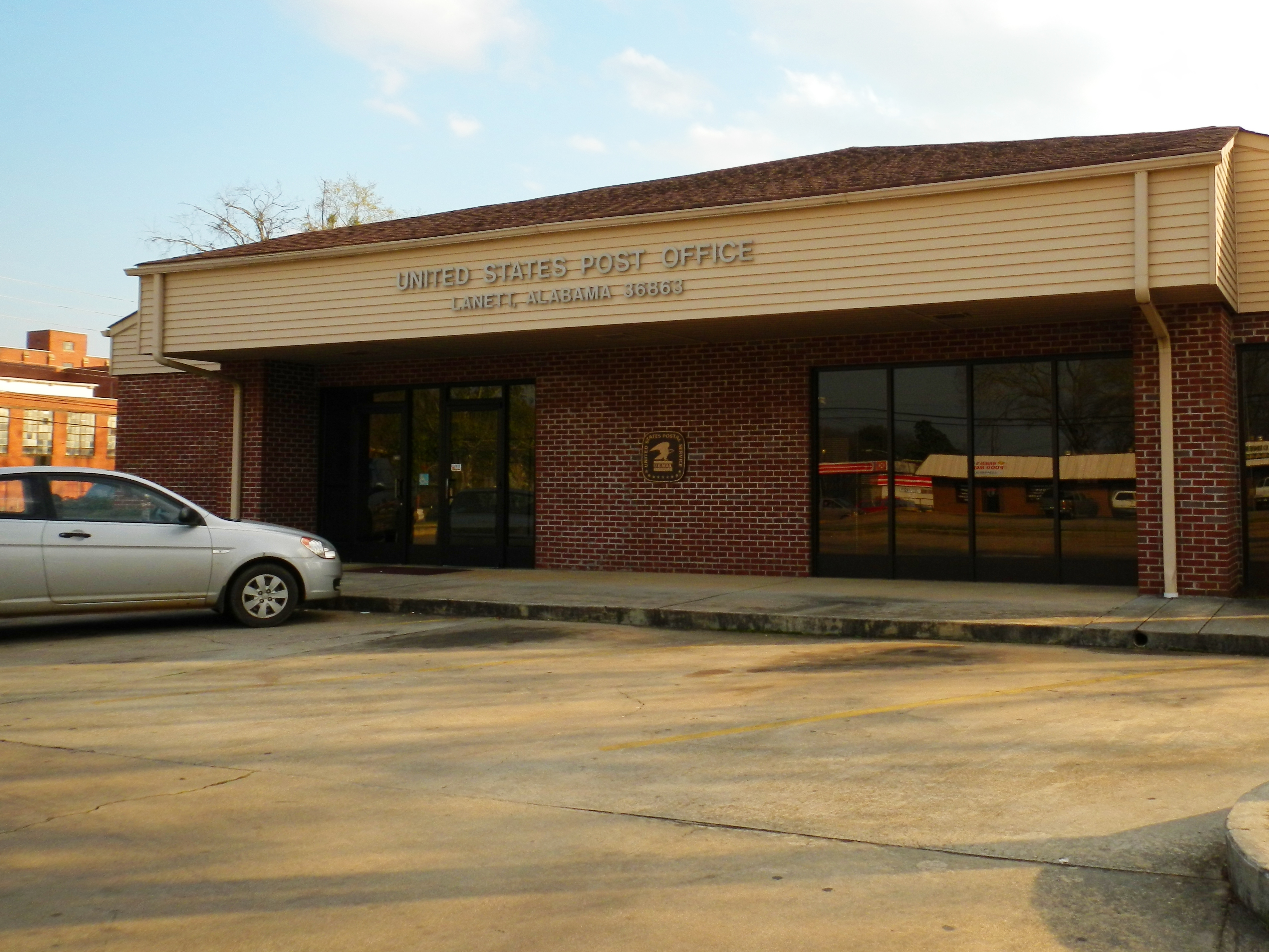 This is a photograph of the post office in Lanett, Alabama.